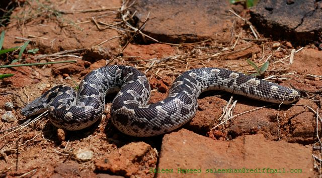 Russells Boa Gongylophis conicus, India